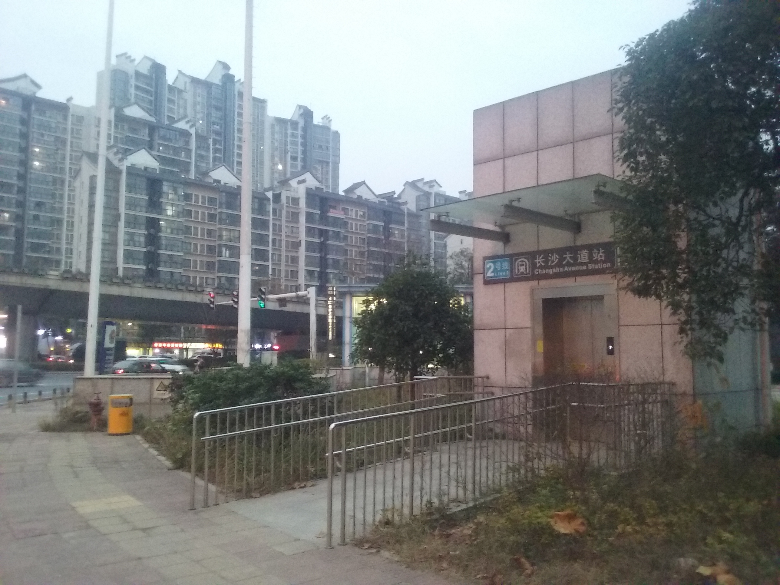 Elevator of Changsha Avenue Station